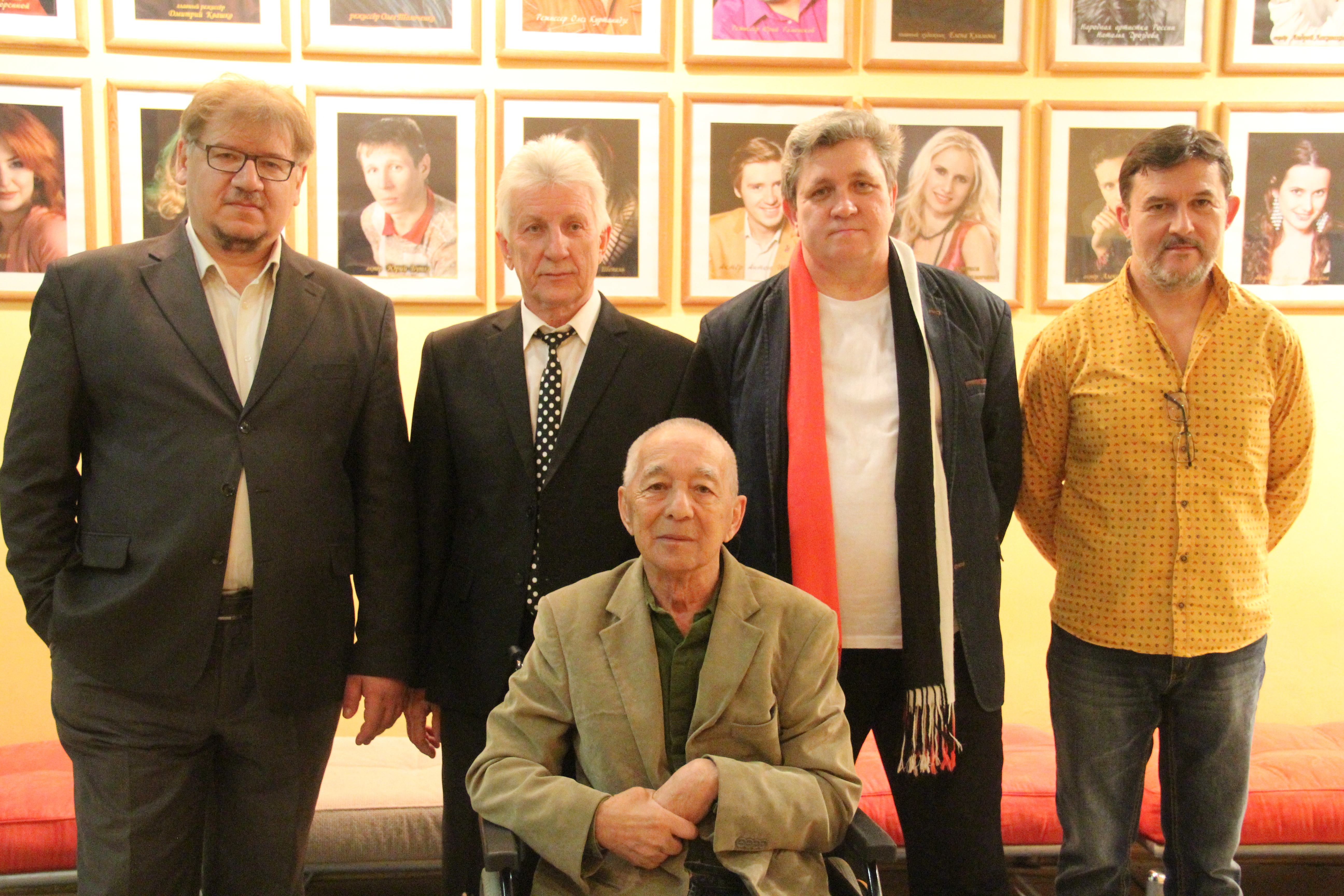 Tya-Sen (at the bottom) at the celebration of the anniversary Of the youth drama theater of Togliatti on April 4, 2018. From left to right (standing): Director Oleg Kurtanidze, Director (managing) of MDT Vladimir Korennoi, chief Director Dmitry Kwasko, Director Oleg Tolocenco.